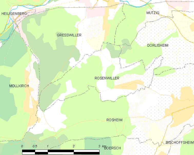 Map of French municipality